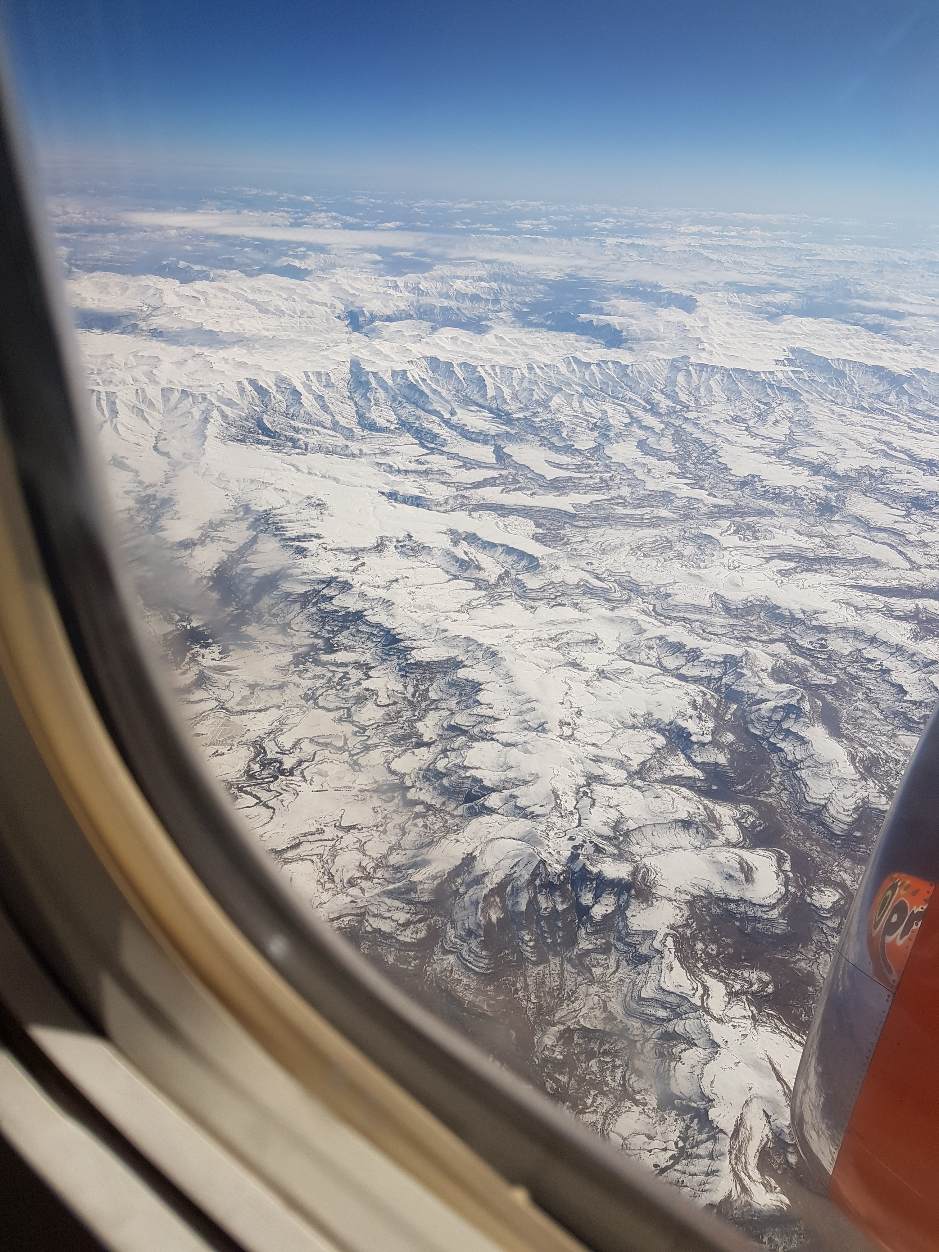 Arial view of the Drakensberg from inside an airoplane This is an image with the theme "Play" from: South Africa